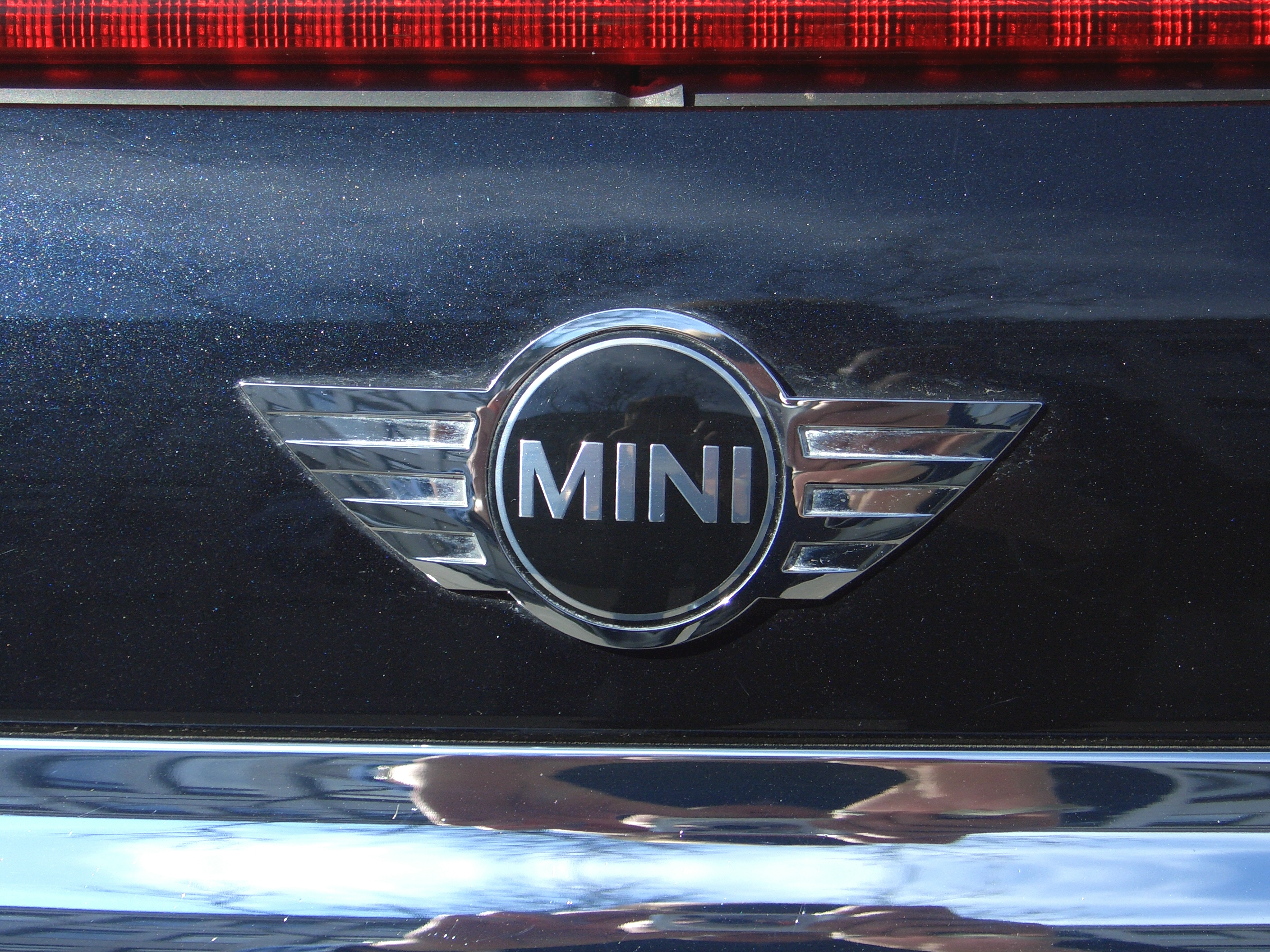 Mini (new, BMW), boot lid badge